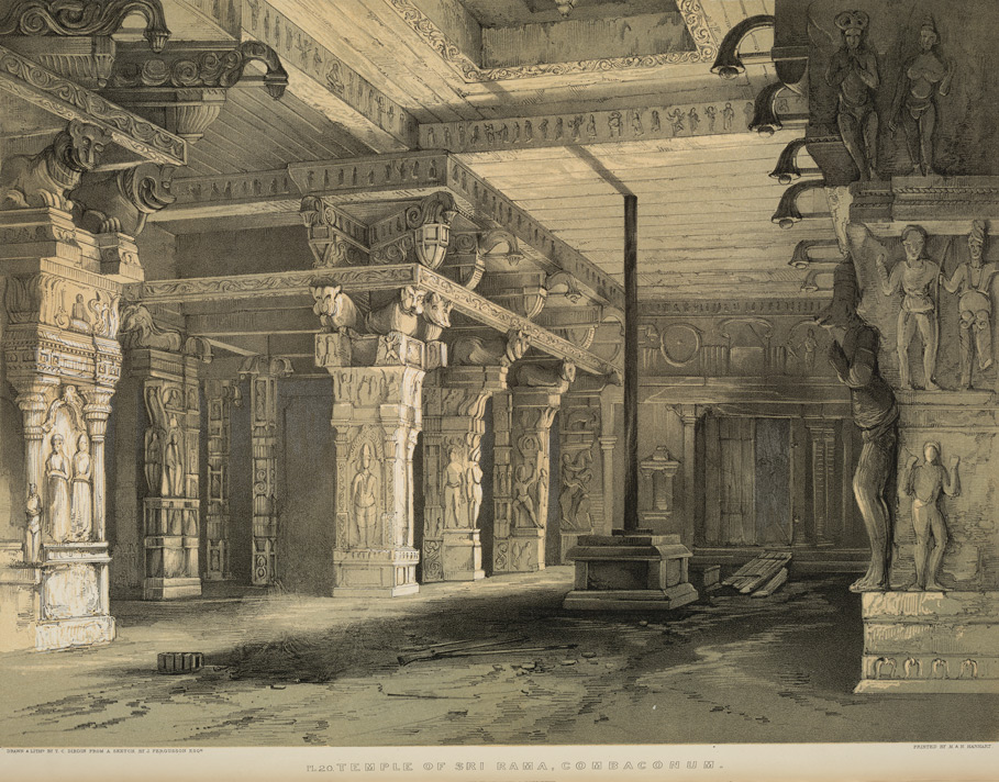 This is plate 20 from James Fergusson's 'Ancient Architecture in Hindoostan'. Kumbakonam in Tamil Nadu has many temples dedicated to Shiva and Vishnu, some of them famous for exquisite sculptures. The Nayaka dynasty ruled in Tamil Nadu from the 16th century to the 18th century.